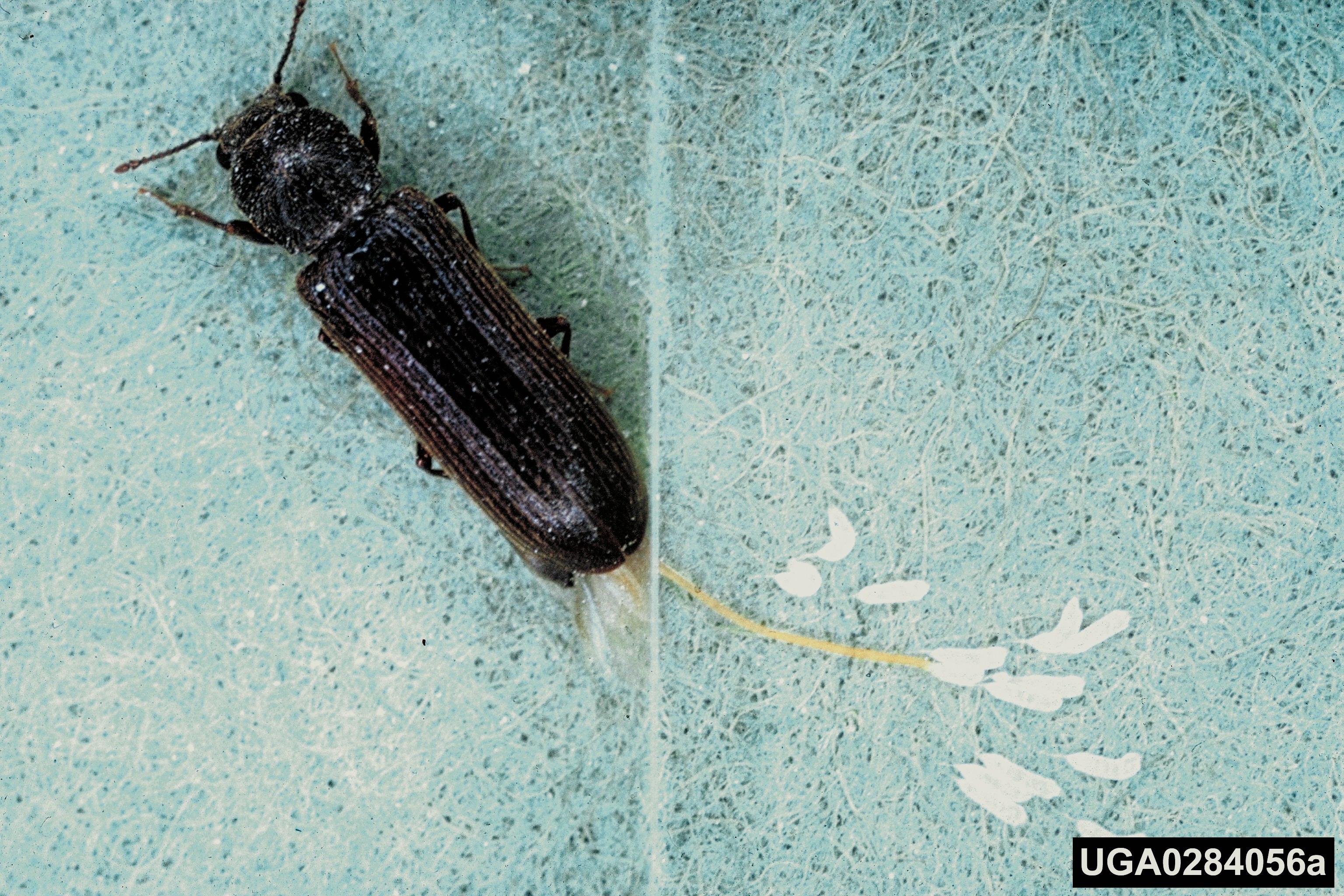 Female with extruded ovipositer and eggs. Normally eggs are deposited in large vessels of many hardwoods.